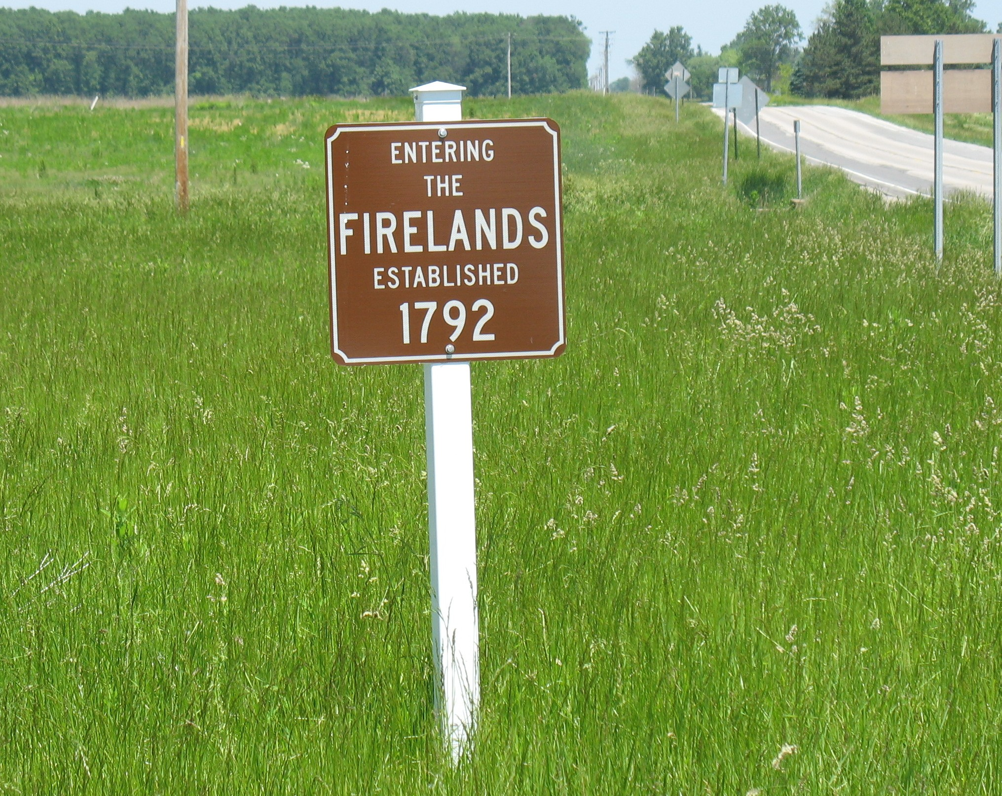 Firelands sign at the intersection of Ohio State Route 4 and Ohio State Route 269 in Sherman Township, Huron County, Ohio, near the Seneca County line. [ The '1792' date is misleading, it refers only to a legislative "establishing", (not a physical arrival date)]